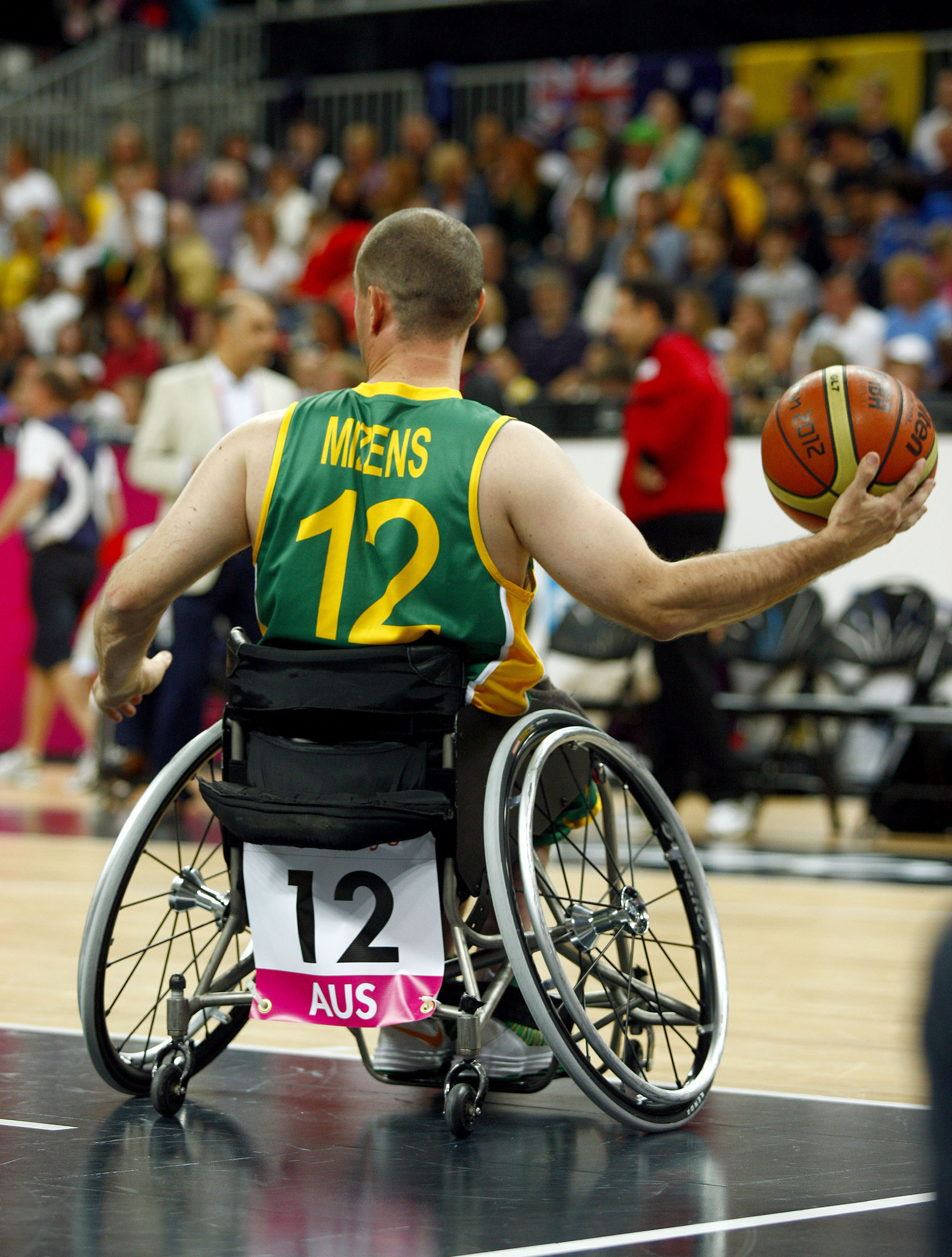 Photograph of Australian Paralympic team member Grant Mizens at the 2012 Summer Paralympics in London